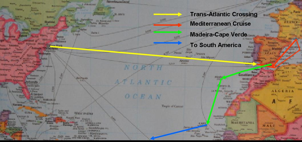 Cruise of William Parker to Europe & Africa